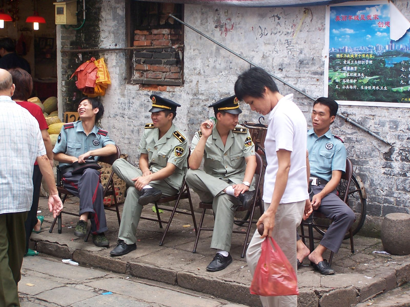 Chengguan in Canton, Kwangtung 粵語: 廣州城管